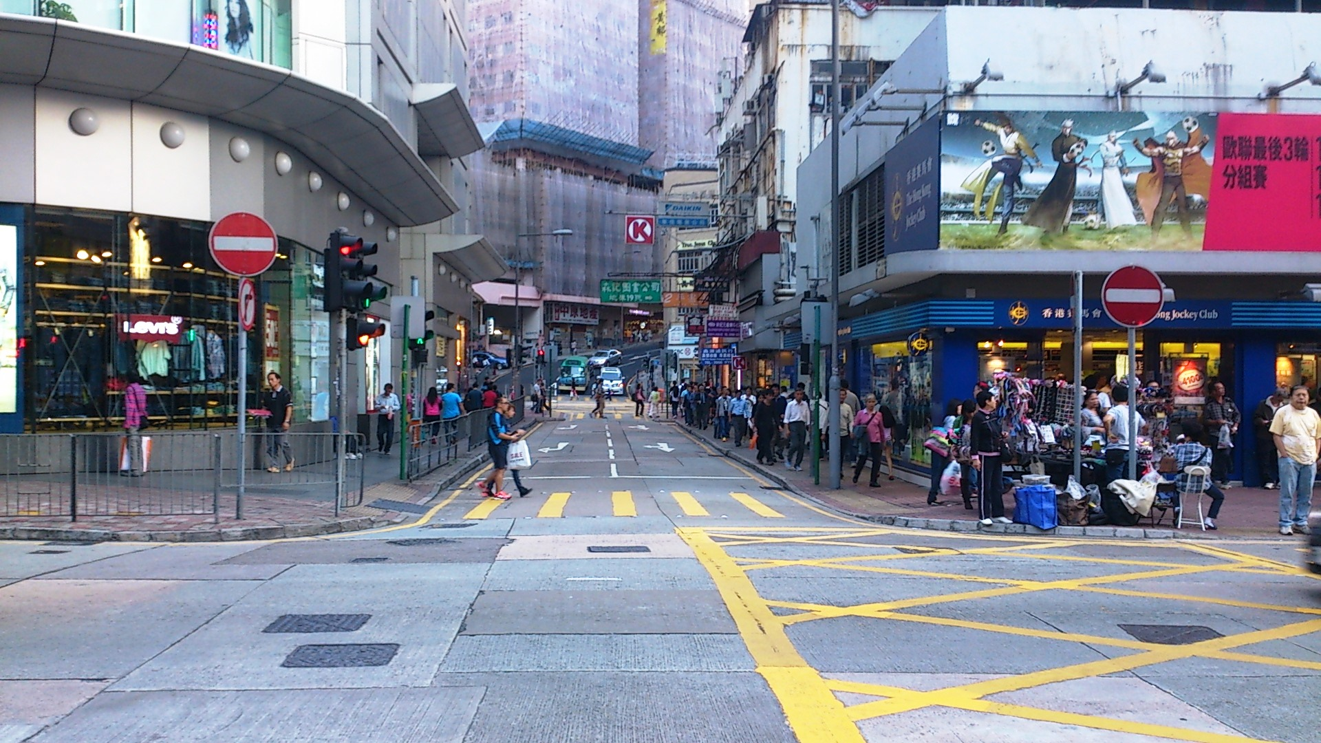 Power Street near Electric Road